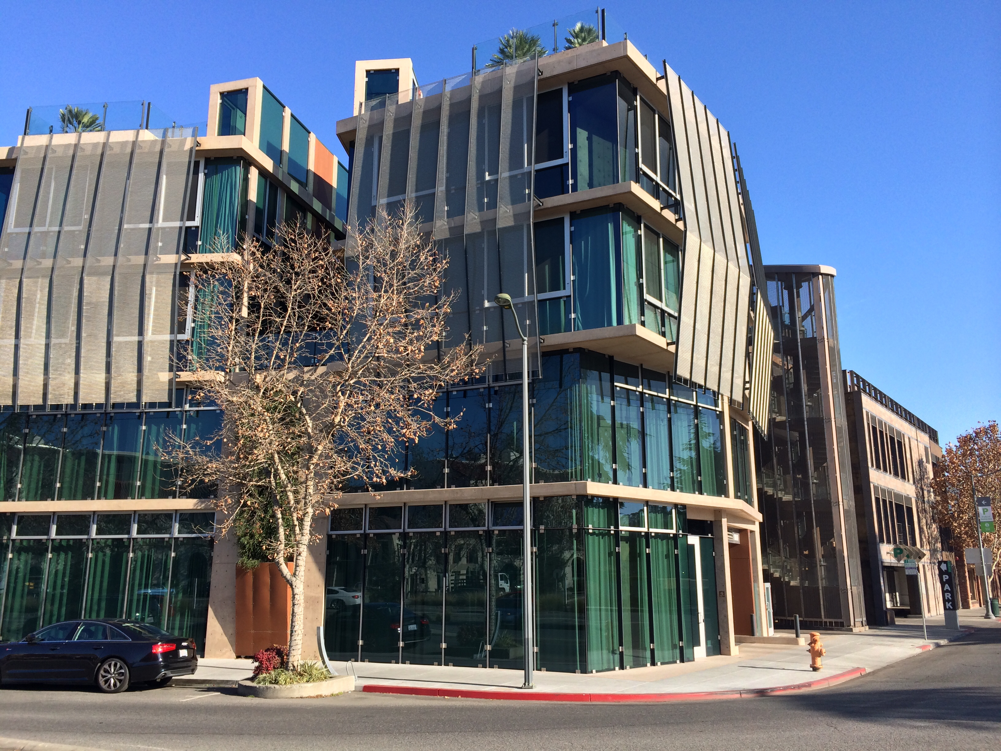 Palo Alto Circle (University & Alma) 102 University Ave. Designed by Joseph Bellomo Architects